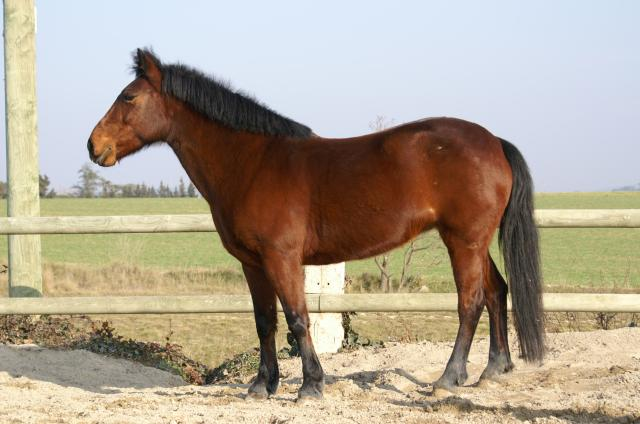 Gambie, Poney Français de Selle mare